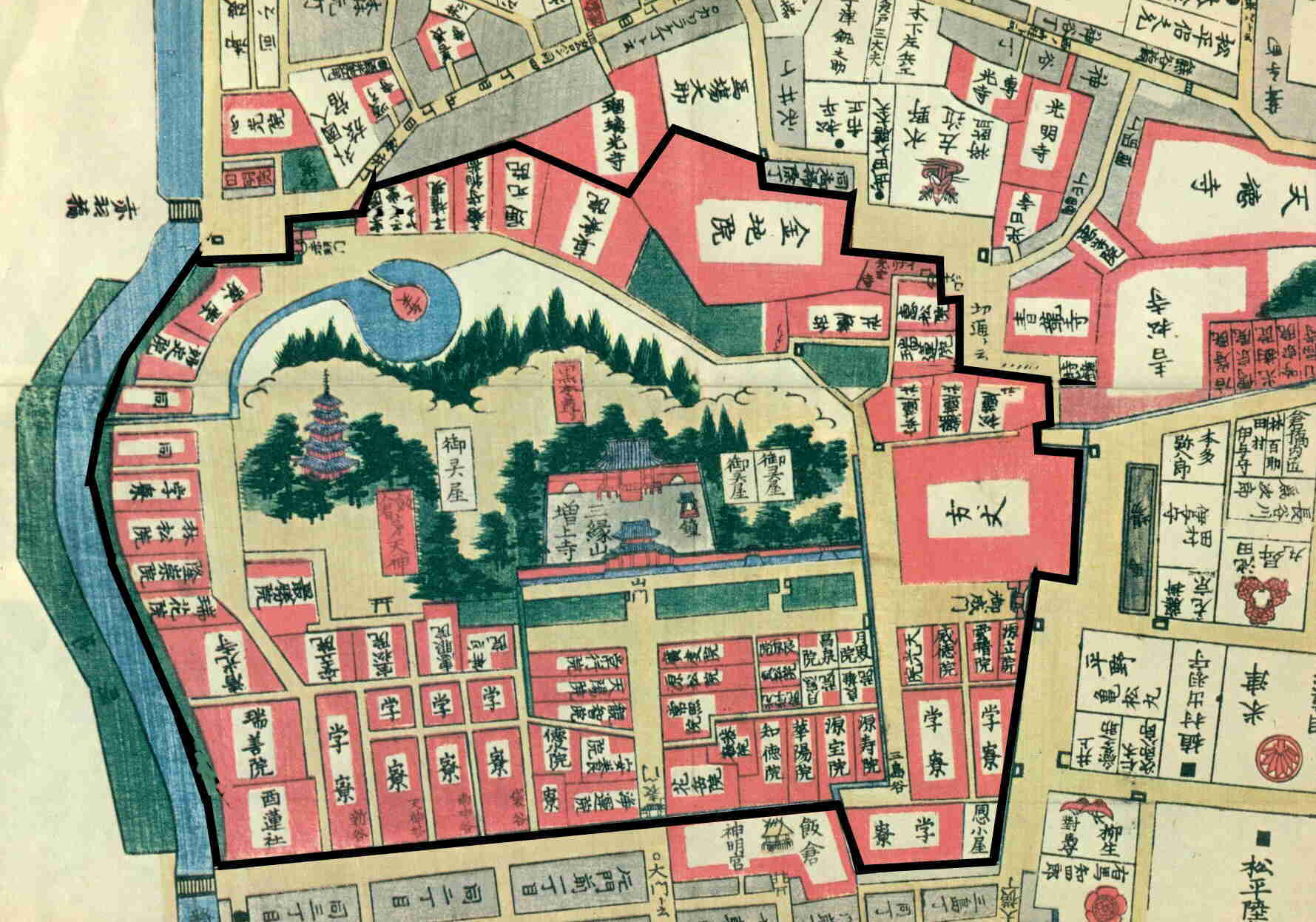 Zôjôji Edo on old map (detail)